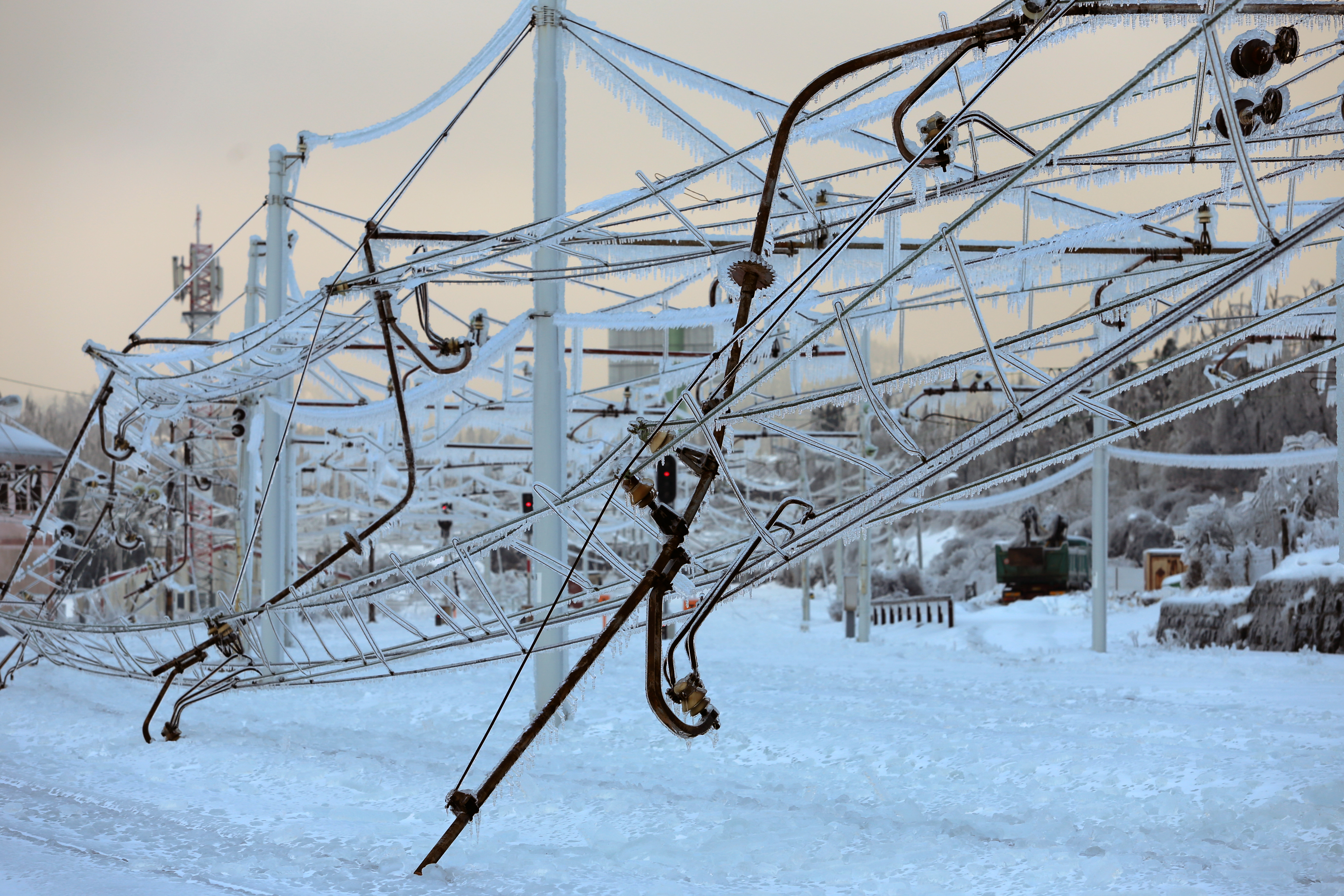 Freezing rain-encased and damaged rail infrastructure at the Postojna railway station after freezing rain that struck Slovenia in February 2014.